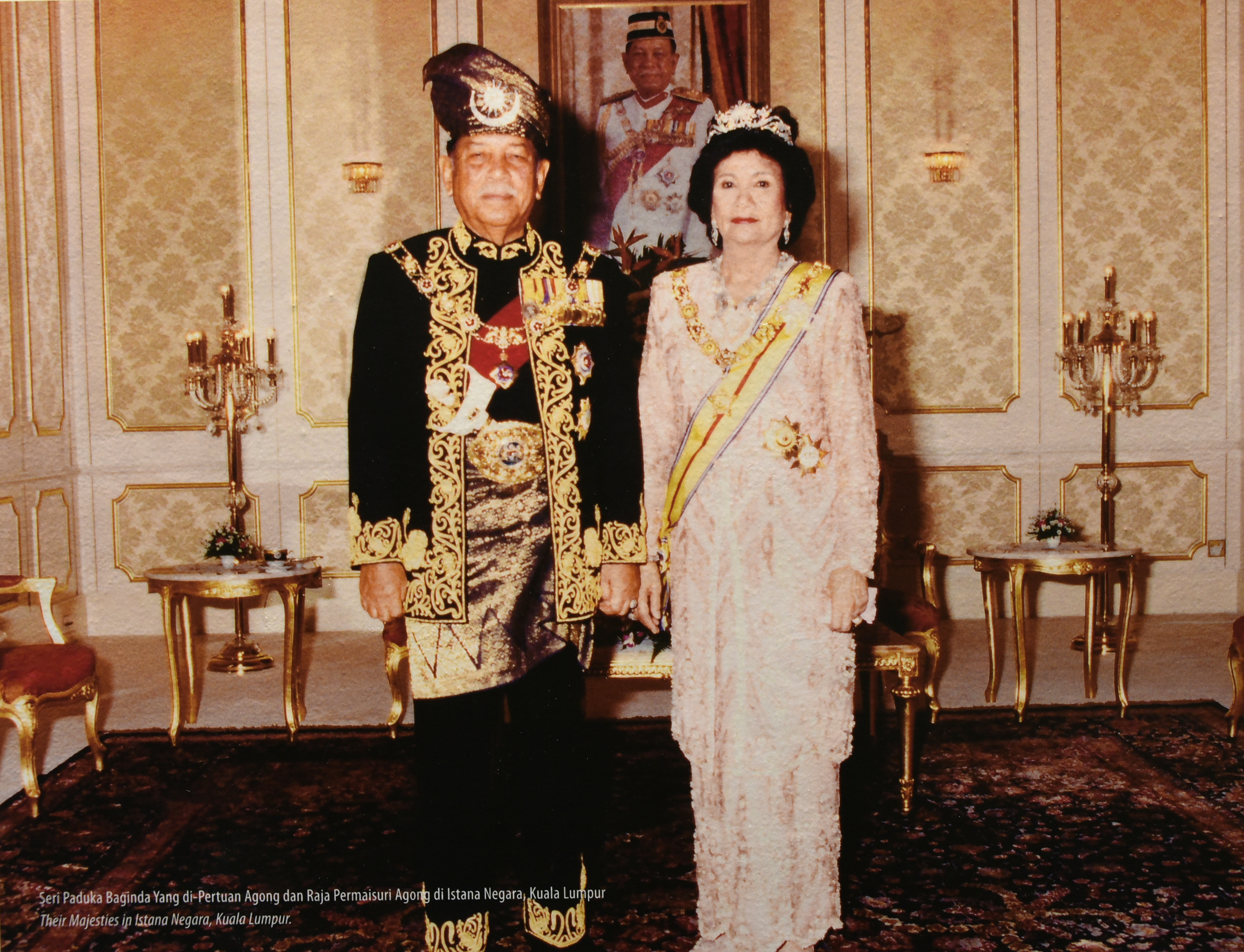 Tuanku Ja'afar, Yang di-Pertuan Agong of Malaysia, and his wife Tuanku Najiha, Raja Permaisuri Agong of Malaysia. Istana Negara, Kuala Lumpur. The name of the photographer was not mentioned. The original image is © the Tuanku Ja'afar Royal Gallery, Seremban, Negeri Sembilan, Malaysia.